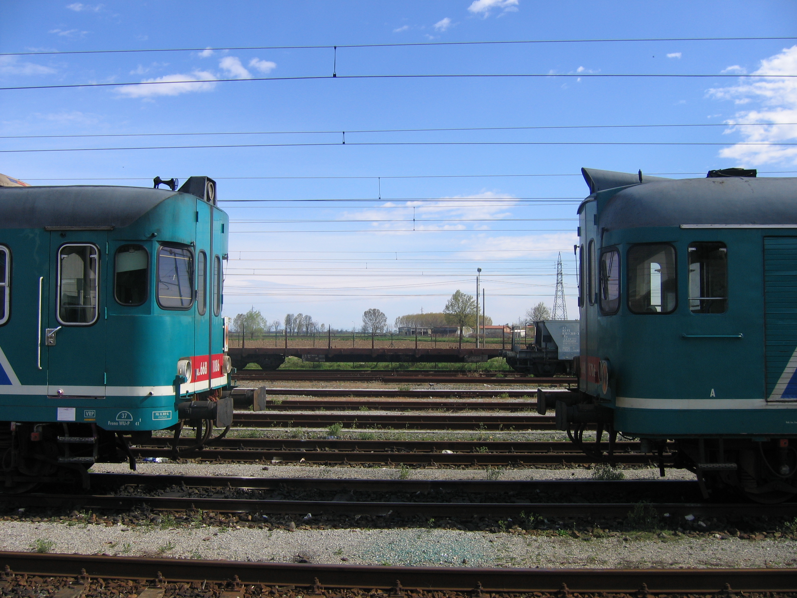 ALn668 n.1706 (right) and n.1086 (left). Roofs and windows are different: left one is built by Fiat, right one by Breda Pistoiesi on layout FIAT. Santhià (TO), Italy